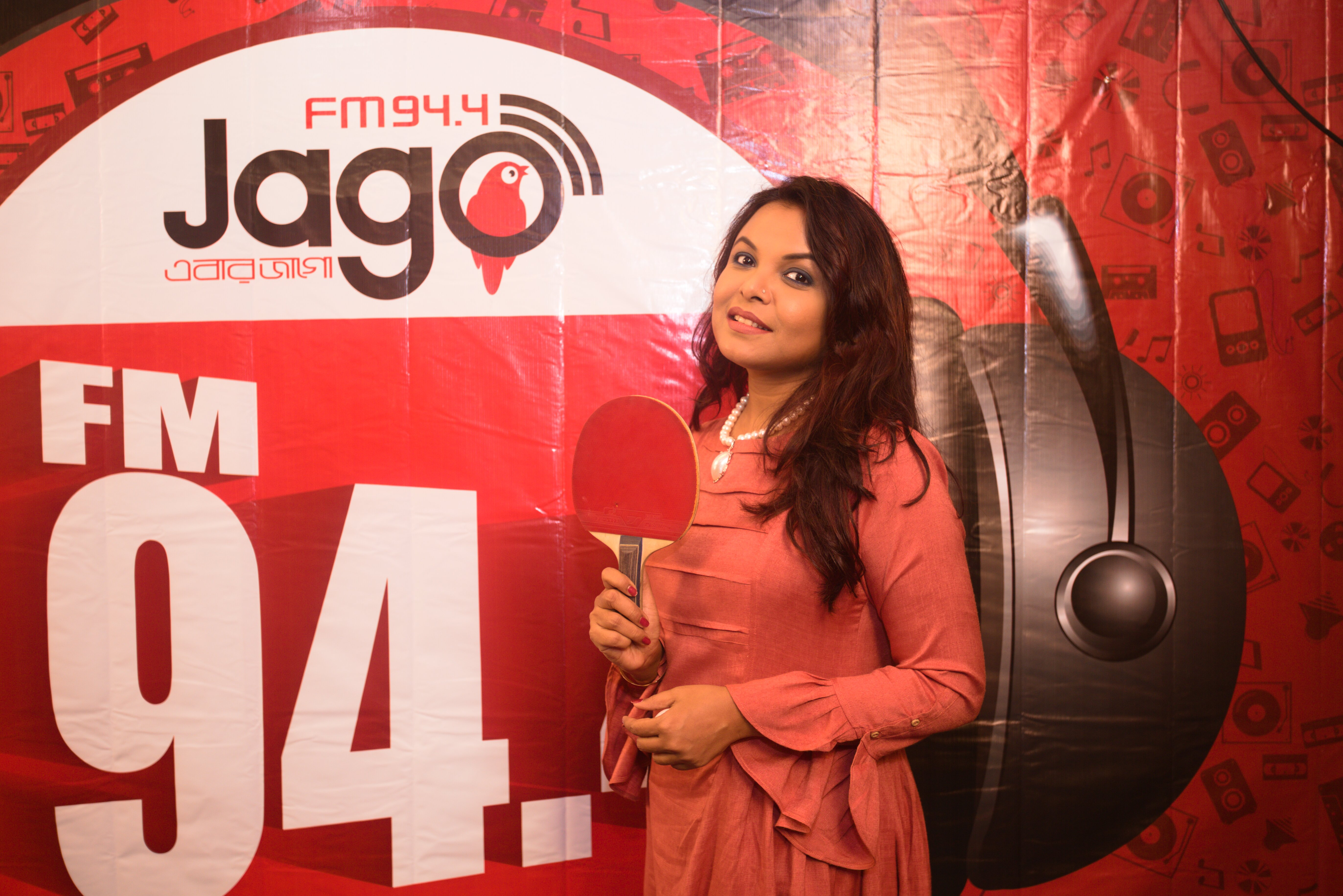 Meher Afroz Shaon is a Bangladeshi actress, director and playback singer.